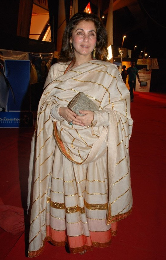 Bollywood actress Dimple Kapadia during an event